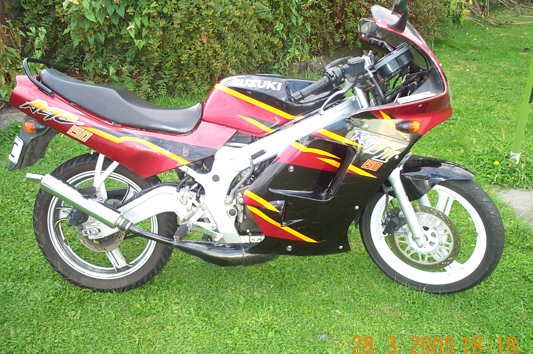 rg150 side